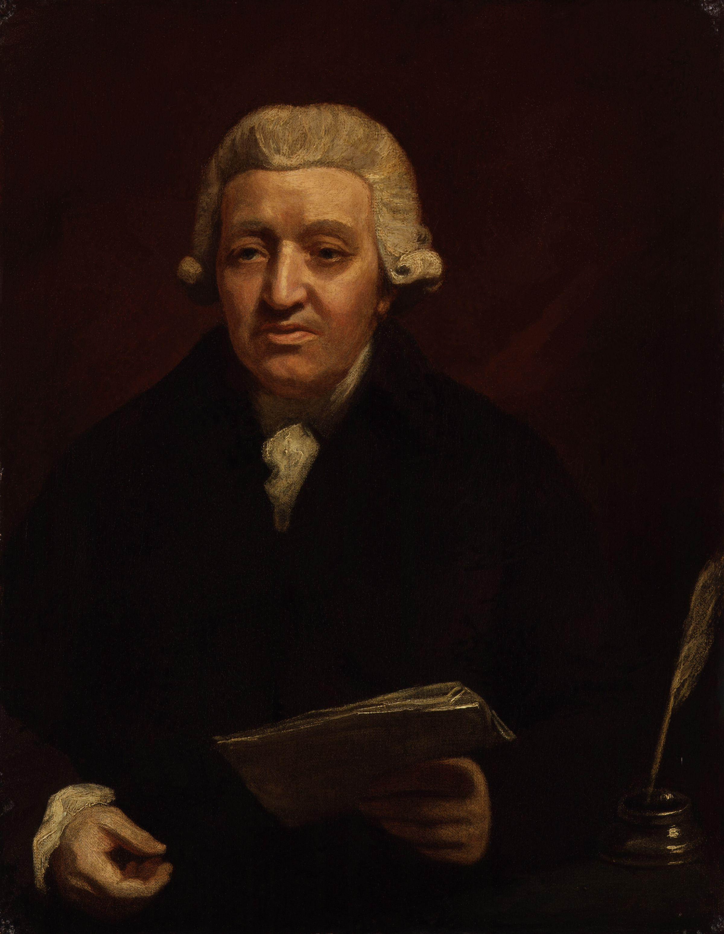 All images in this batch have been confirmed as author died before 1939 according to the official death date listed by the NPG.